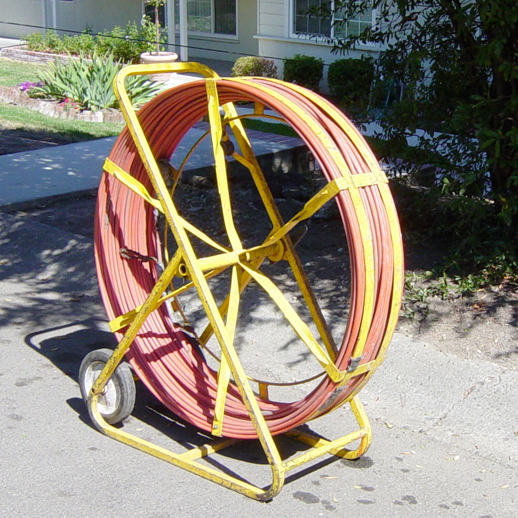 Glass-plastic composite ("Fiberglass") fish rod, used to fetch ropes through sewer pipes for subsequent pipeline video inspection. Image by User:Leonard G.